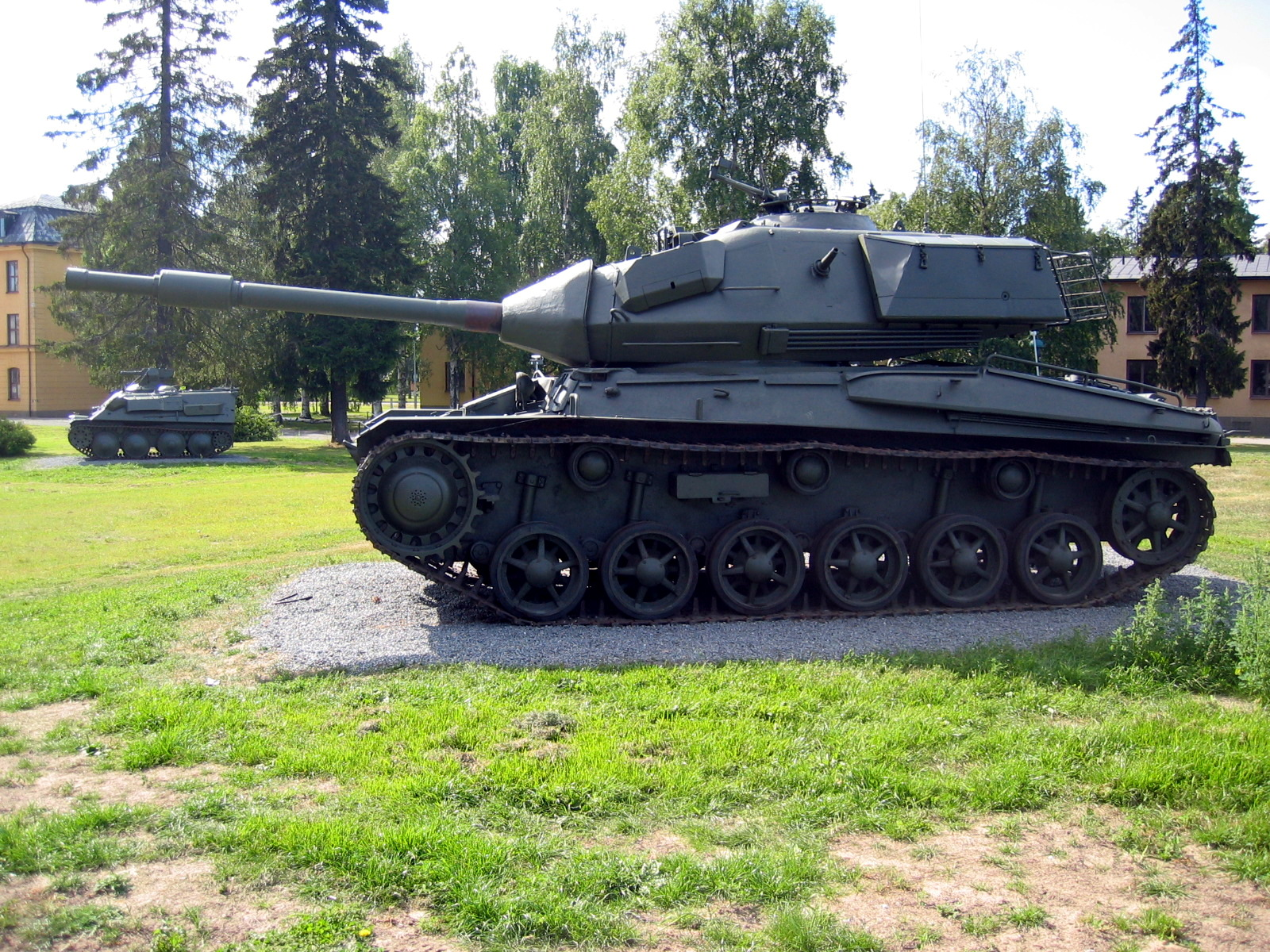 A Swedish Stridsvagn 74 tank outside the military history museum in Boden.